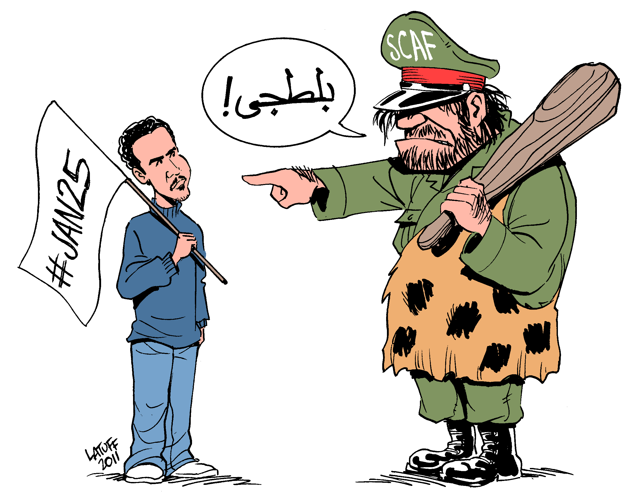 A SCAF's cave man accusing a Jan. 25th youth (Loai Nagati) of being thug